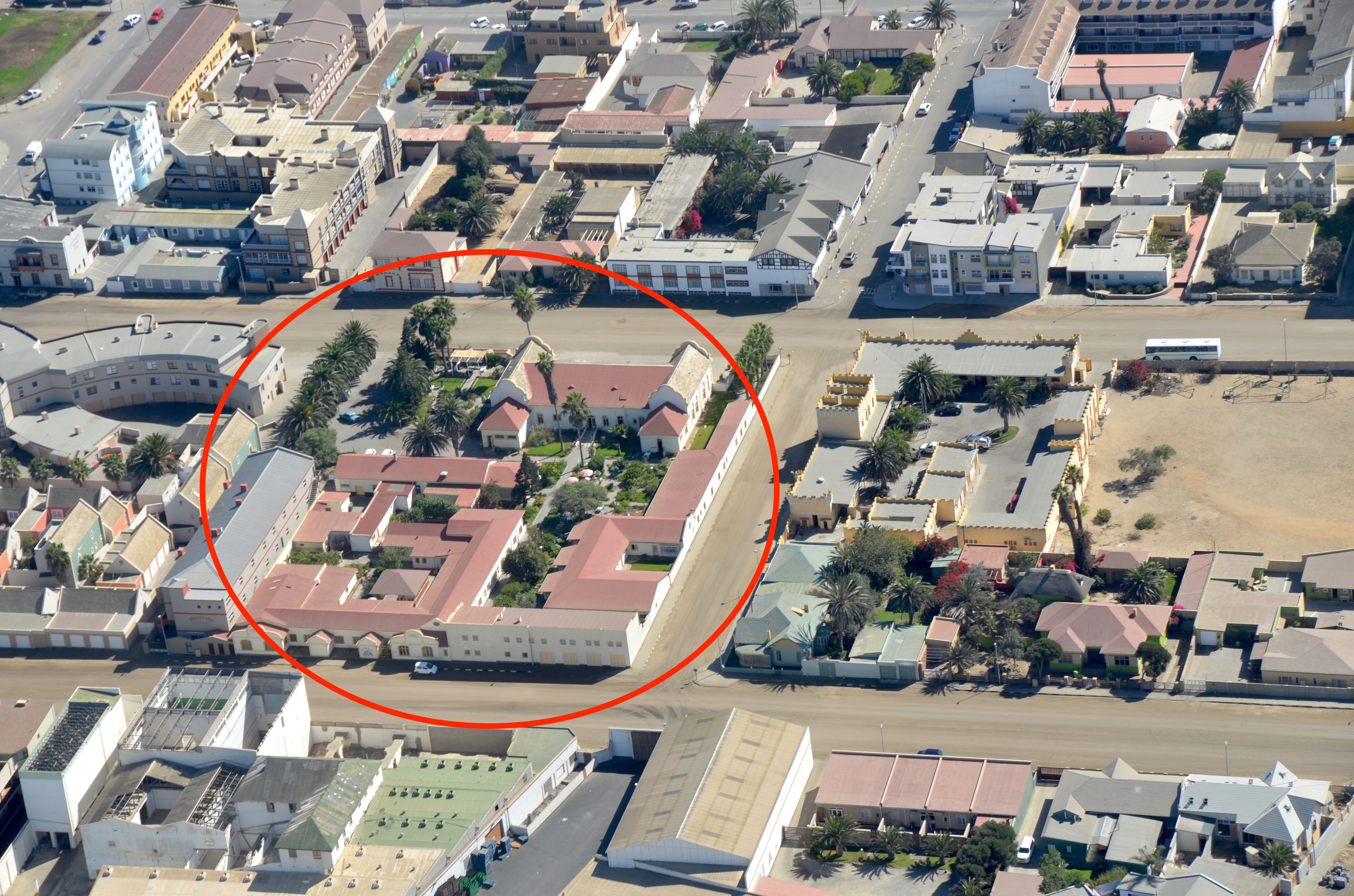 Prinzessin Rupprecht Hotel from bird's eye view